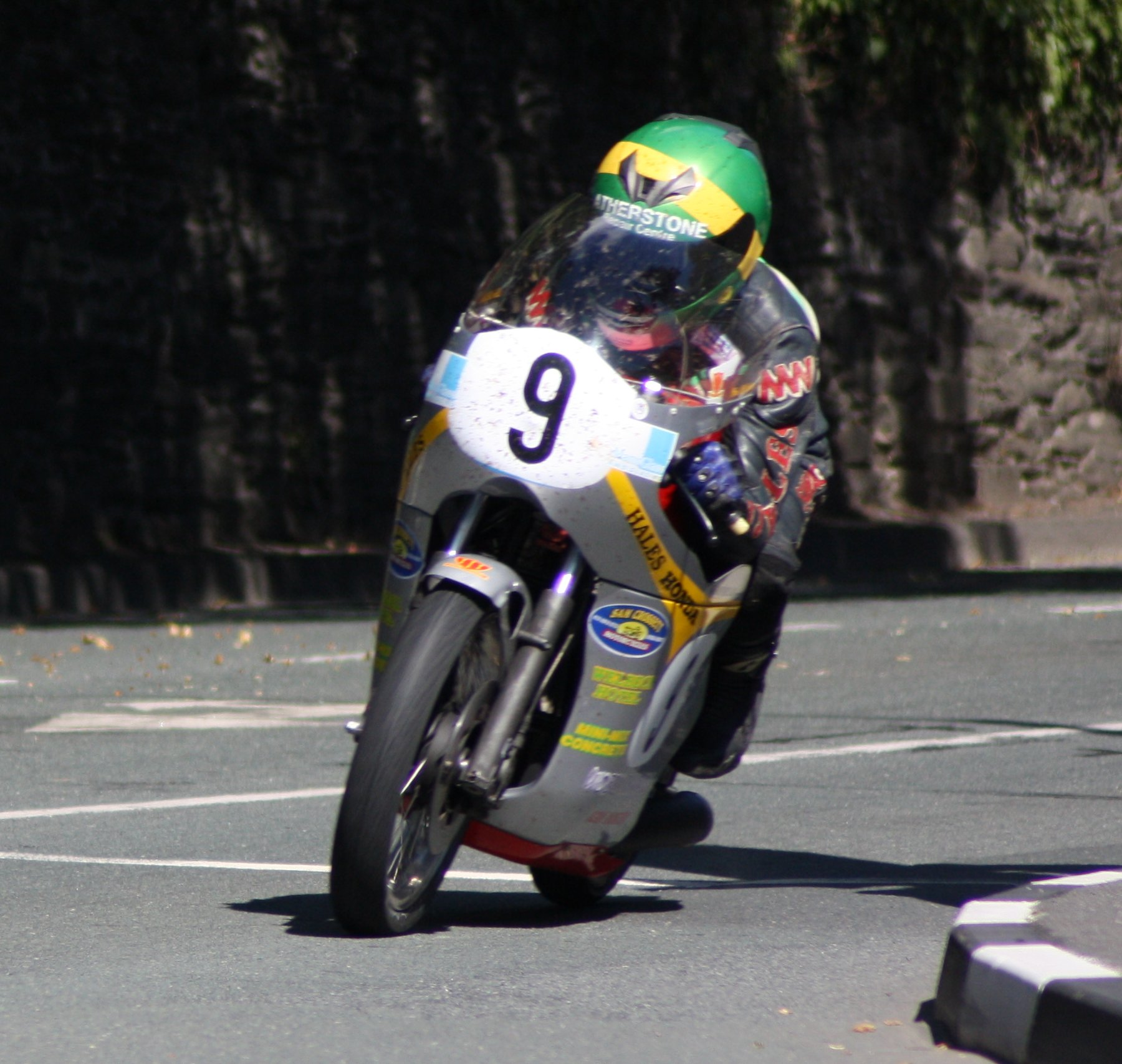 Chris McGahan riding a 346cc Honda / Hales Honda during the 2010 Manx Grand Prix Junior Classic. He finished second with a time of 01:29:29.99, averaging 100.8 mph around the course. Pictured at St Ninian's Crossroads, Douglas.